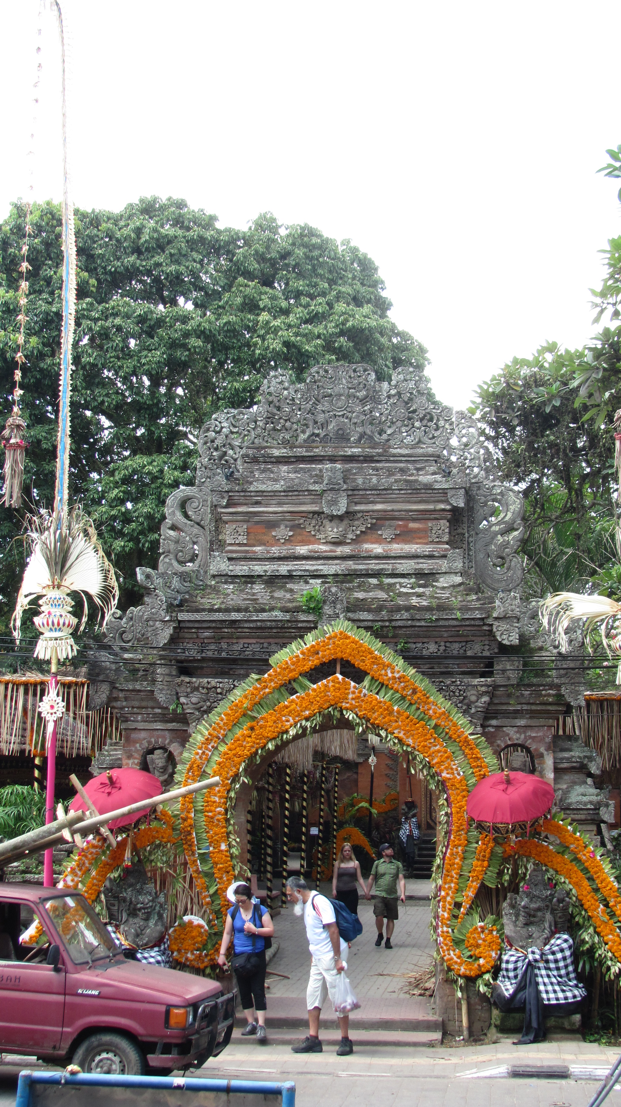 Palace entrance, Ubud, Bali, Indonesia